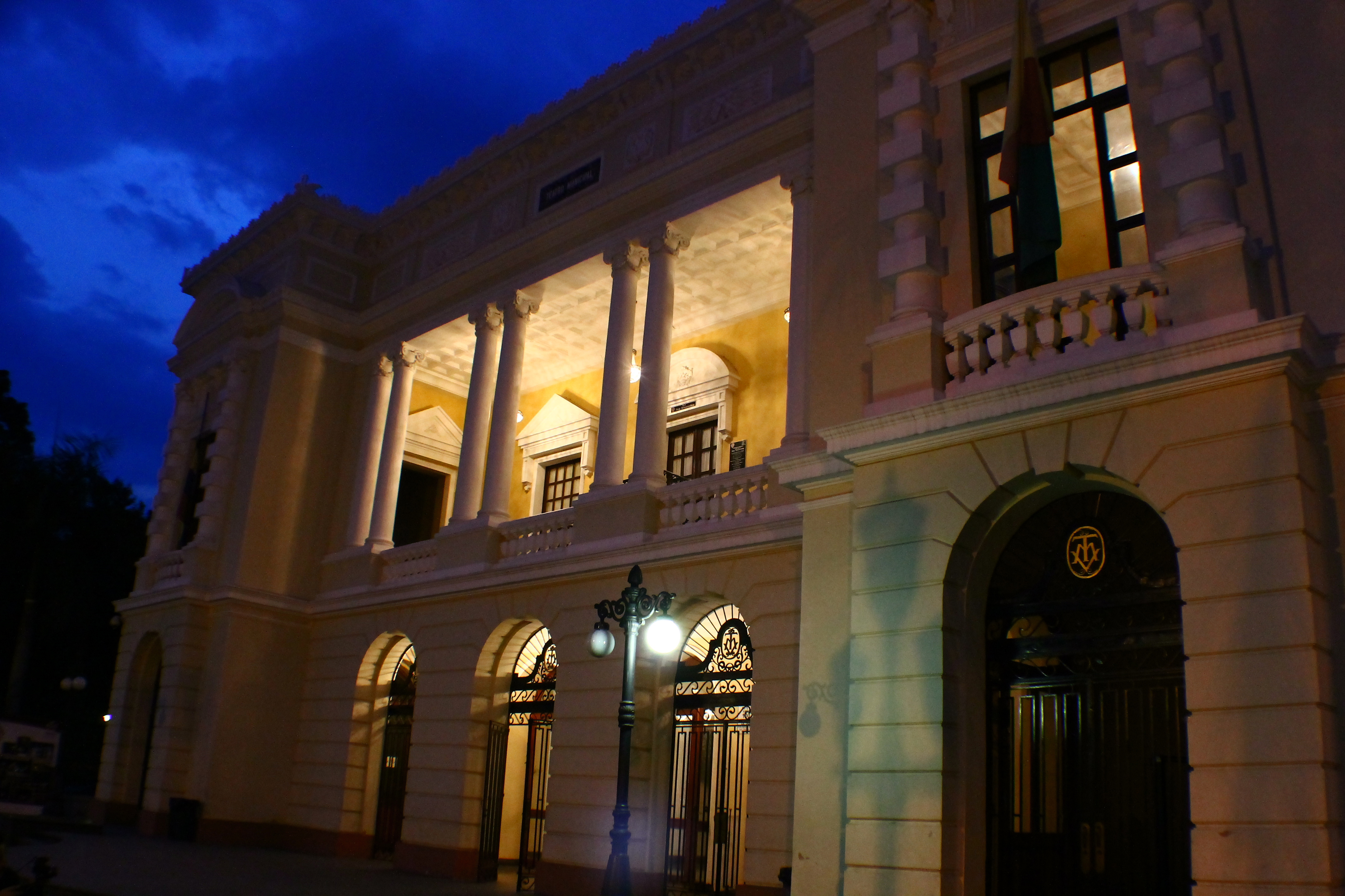 this is the Municipal theate of Valencia located in Carabobo State, Venezuela